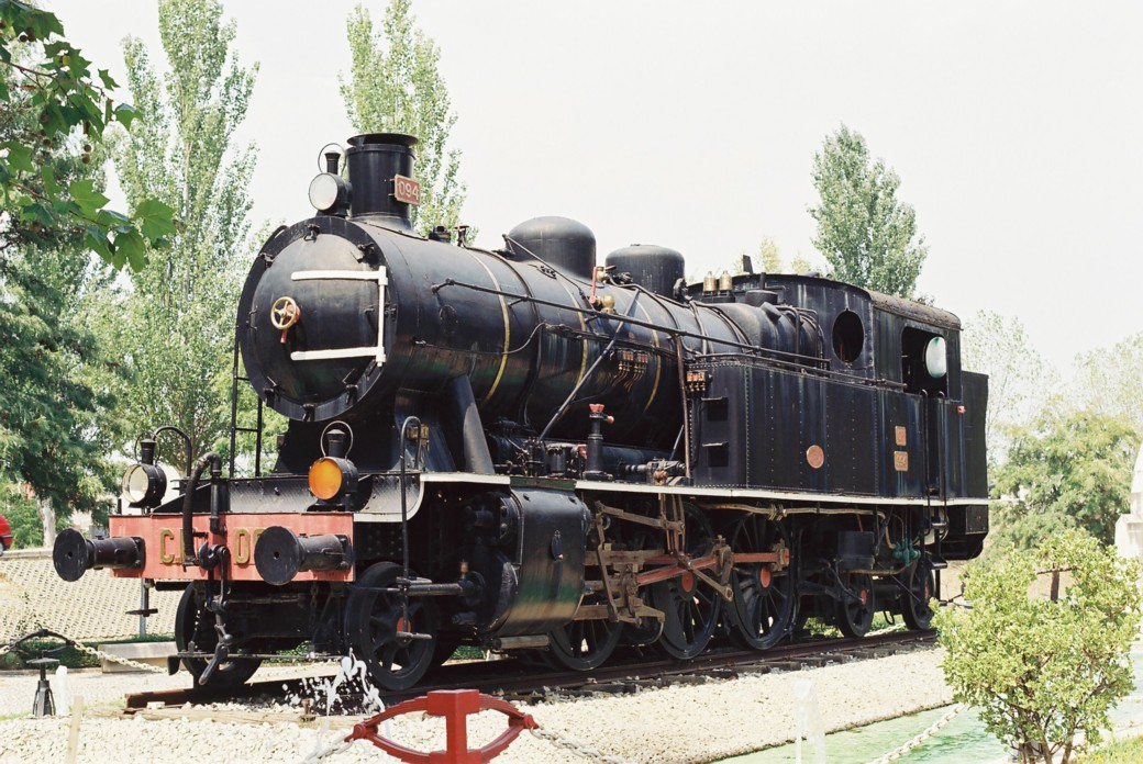 094 in Entroncamento